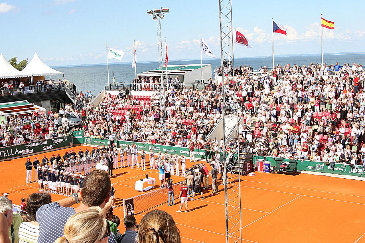 Båstad. Swedish Open. Tommy Robredo vs Tomas Berdych.